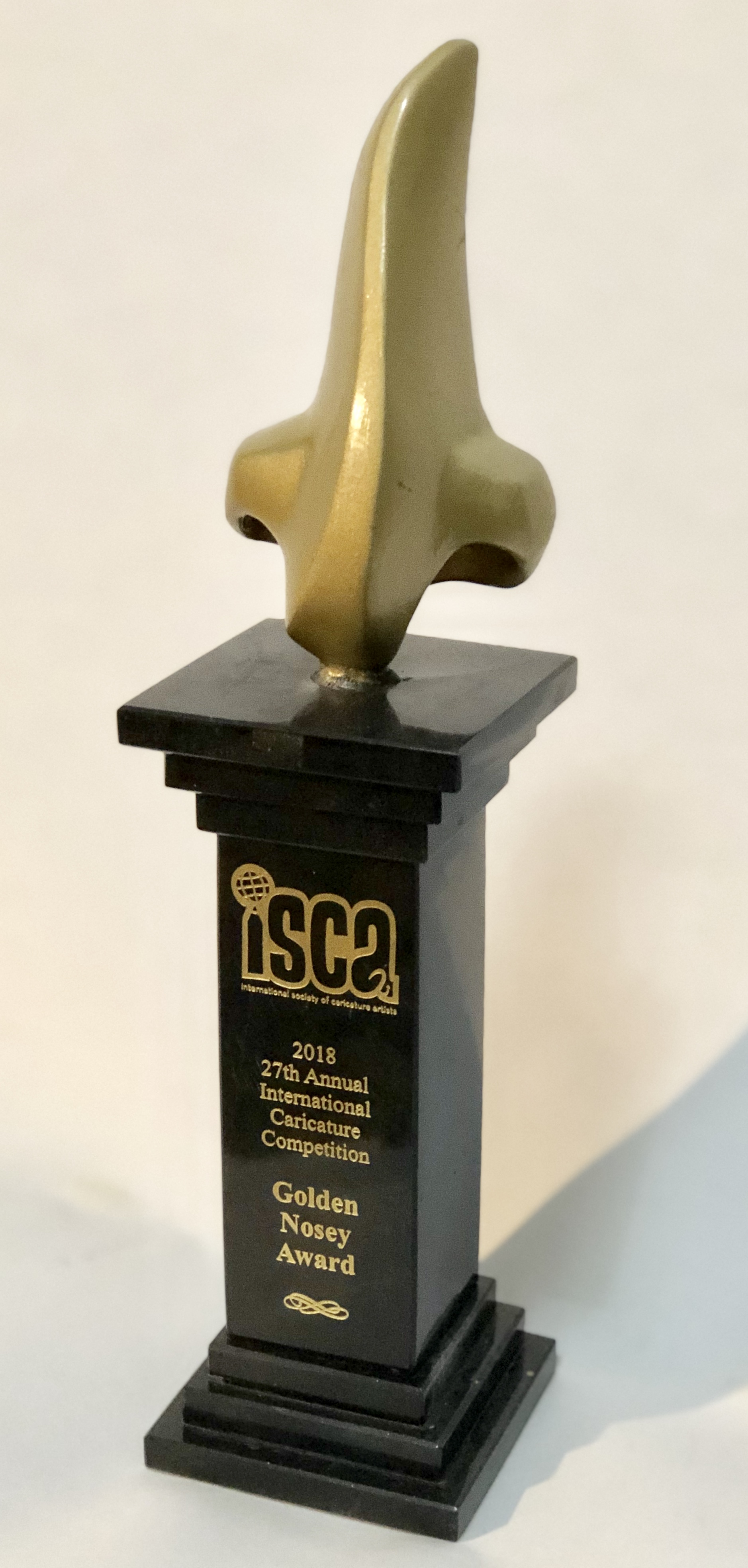 The Golden Nosey Award, presented anually at the ISCA Convention